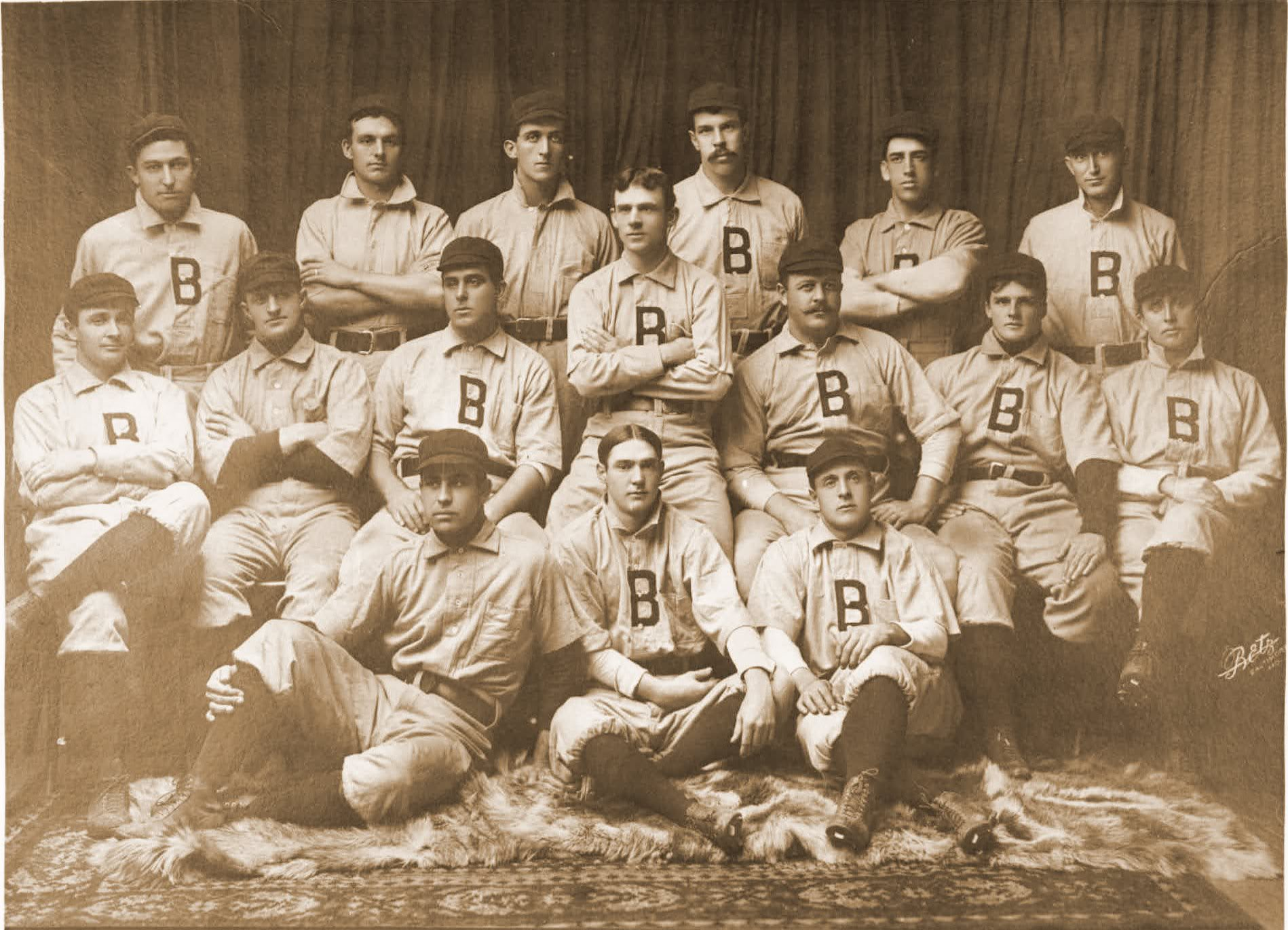 1899 Baltimore Orioles baseball teamTop row: Jerry Nops, Joe McGinnity, Pat Crisham, Candy LaChance, Harry Howell, Frank KitsonMiddle row: Ducky Holmes, Aleck Smith, Steve Brodie, John McGraw, Wilbert Robinson, Charlie Harris, Kit McKennaBottom row: Dave Fultz, Gene DeMontreville, Bill Keister